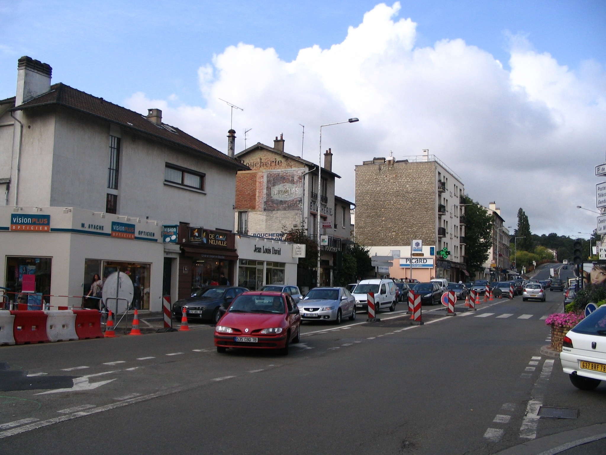 Highway D907, one of the main streets of Vaucresson, Hauts-de-Seine, France.